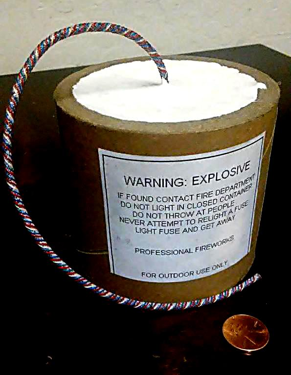 100 Gram Salute